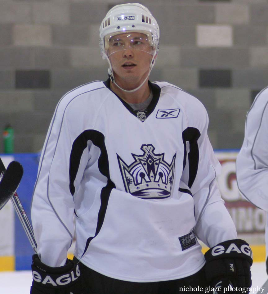 Slovak ice hockey player Ladislav Nagy, playing for th L.A. Kings